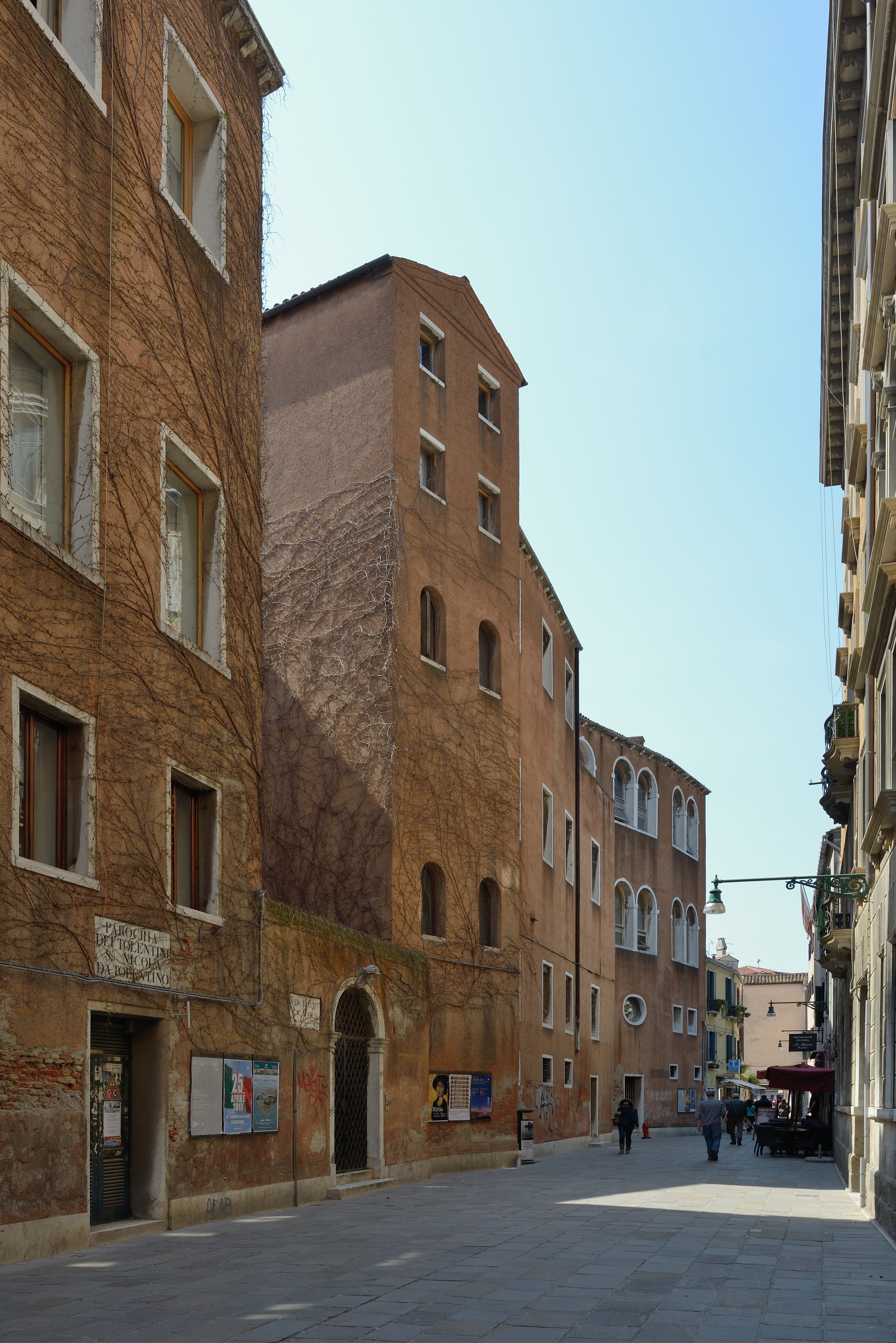 Faculty of architecture on "Calle Amai S. Croce" street in Venice .